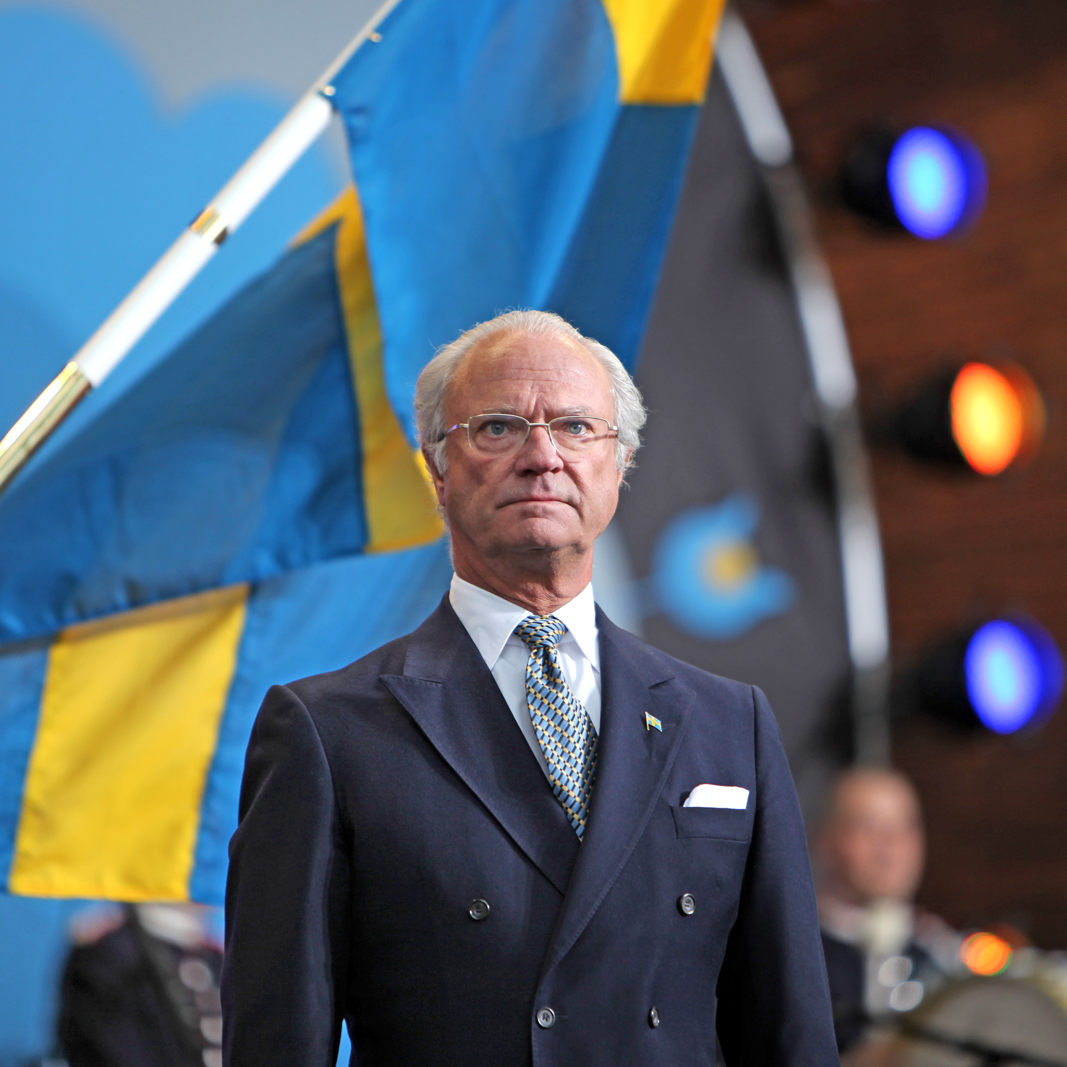 Carl XVI Gustaf of Sweden, on Sweden's National Day June 6 2009 at Skansen in Stockholm